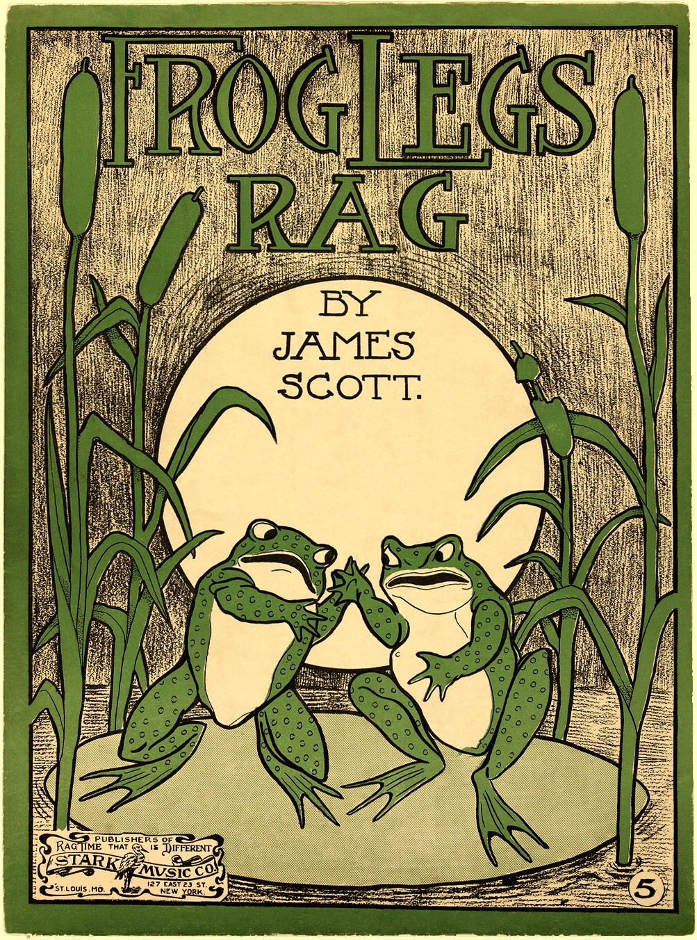 Frog Legs Rag, 1906